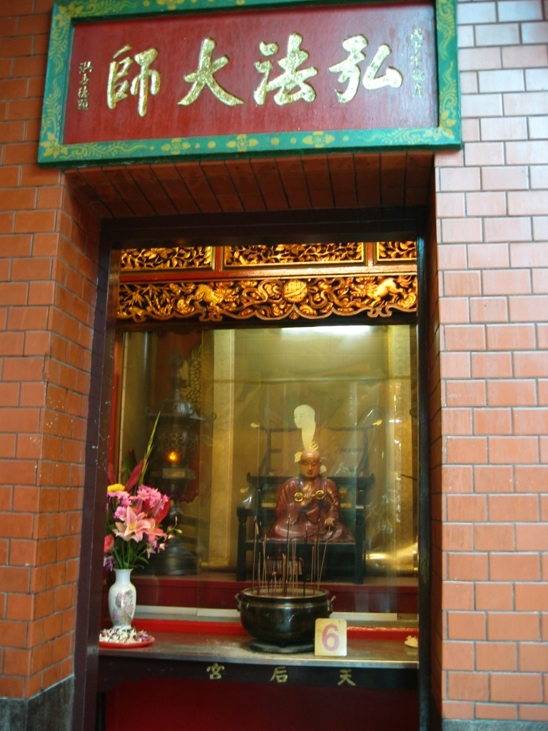 台北天后宮中的弘法大師。mingwangx攝於2006年2月14日。 Kobo Daishi at Taipei Tien-Ho Temple. Photo taken by mingwangx at 14 February, 2006.